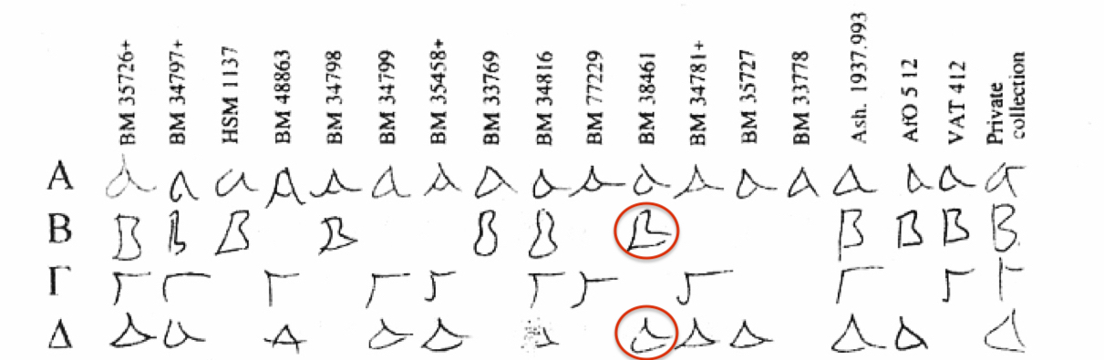 Similarité des bêta et delta, expliquant la confusion par des lectures postérieurs.